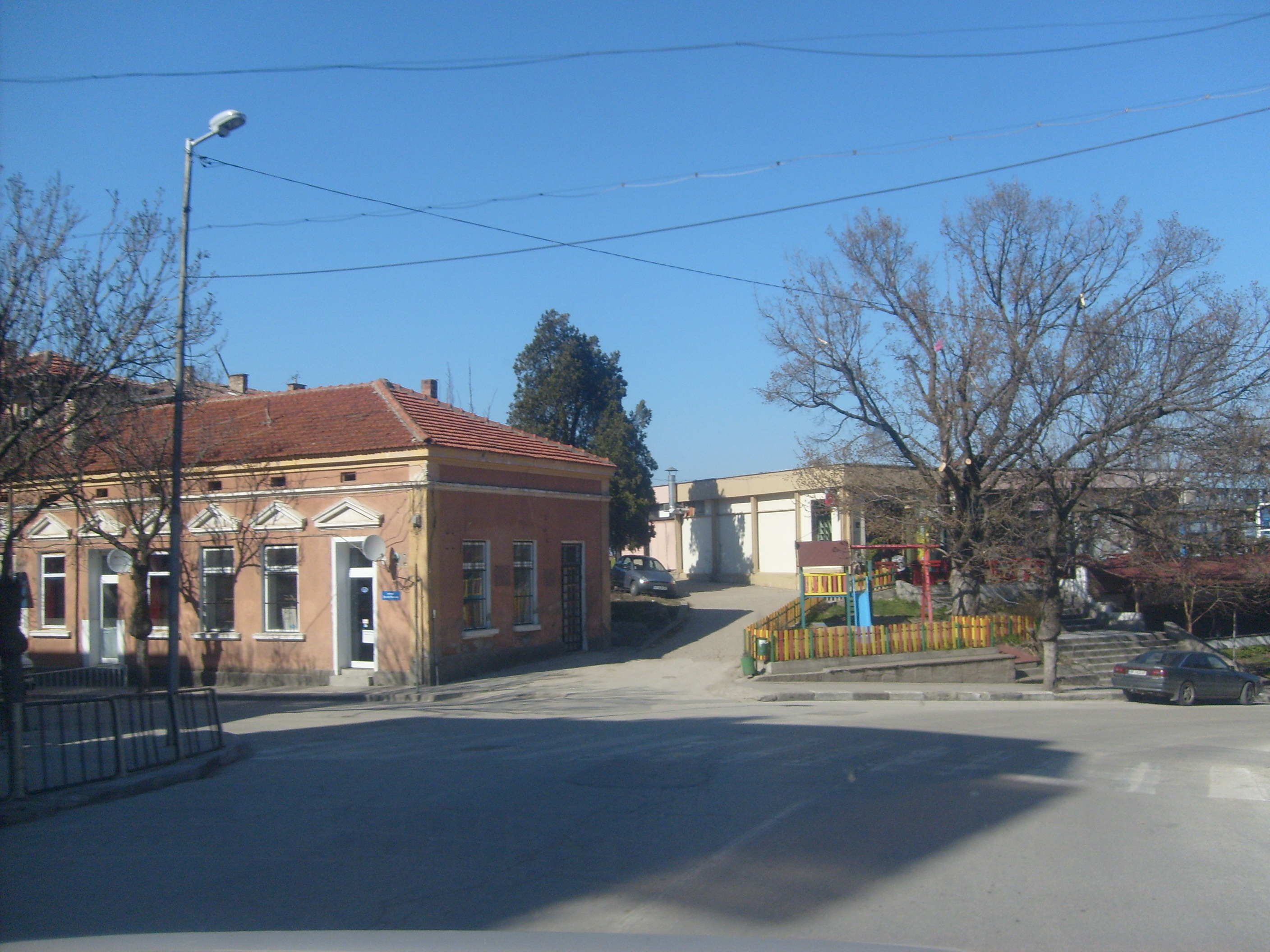 Oryahovo, a town on the Bulgarian bank of the Danube